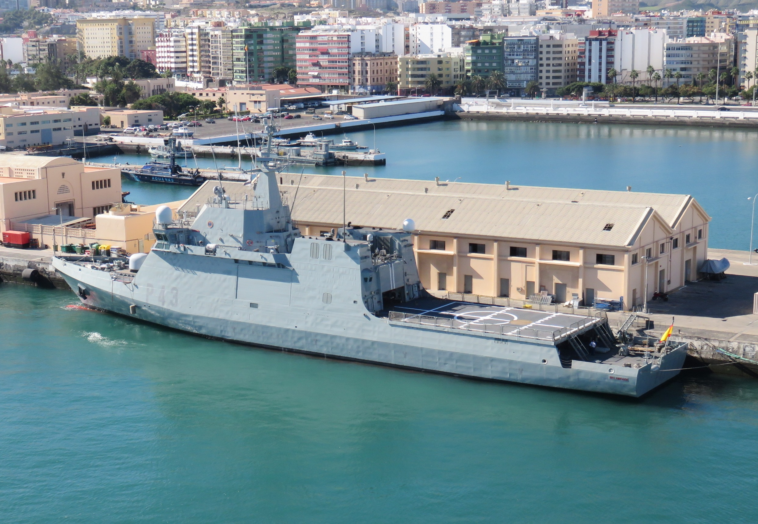 The Relampago moored at the Naval base Las Palmas